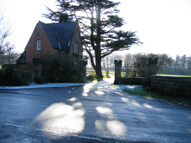 Photograph